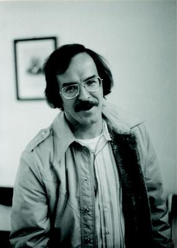 Ronald A. DeVore, Erlangen 1975